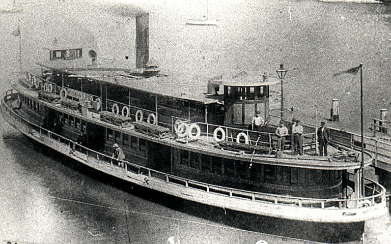 Sydney Ferry WALLAROO as built circa 1900 File 078/078479 DESCRIPTION WALLAROO is shown at Mosman Bay wharf with, probably, her crew posing for the camera. DATE c 1900 FORMAT Digital image only. Many of the images in this collection are available as hi-res jpegs. Please contact the City of Sydney Archives (archives@ .au) on a case by case basis. RECORDSERIES Sydney Reference Collection CITATION Graeme Andrews 'Working Harbour' Collection: 78479 PROVENANCE City of Sydney Archives NOTES S105211